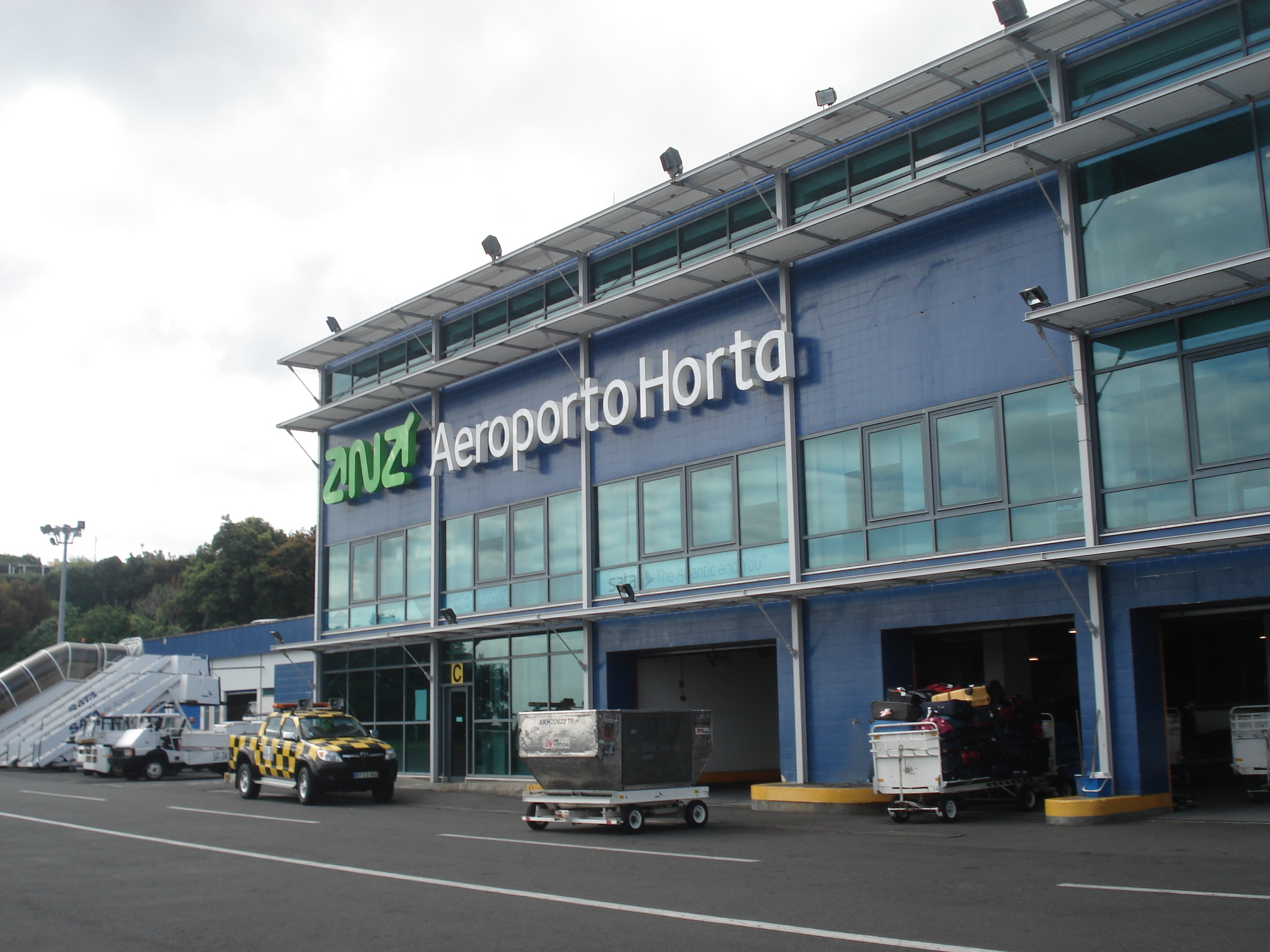 Runway facade of the Horta Airport terminal building, Castelo Branco, Horta, Faial (Azores), Portugal